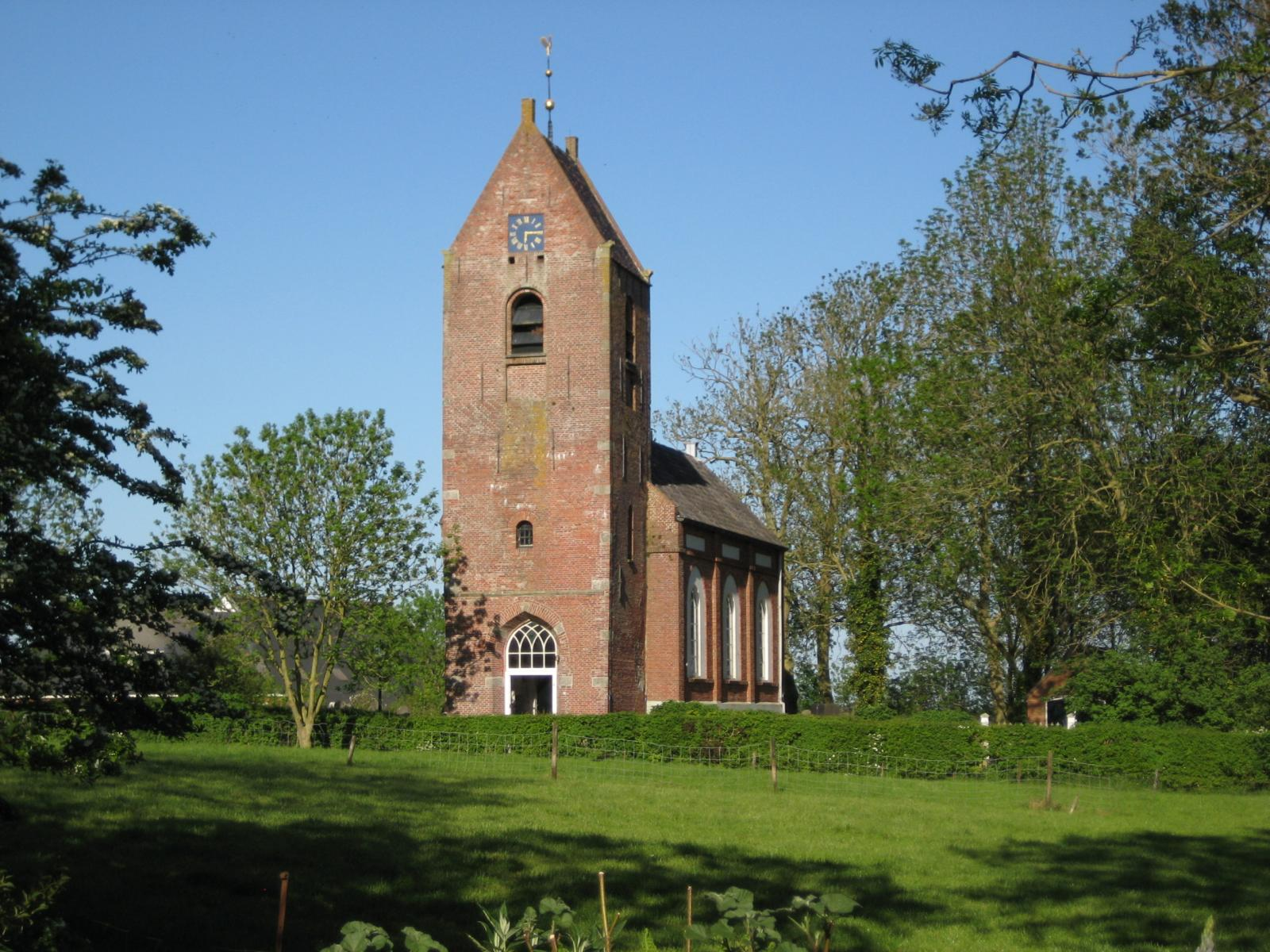 The church of Saaksum, a small village in the Dutch province of Groningen